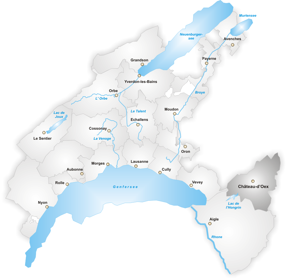 District Pays-d'Enhaut until 2007